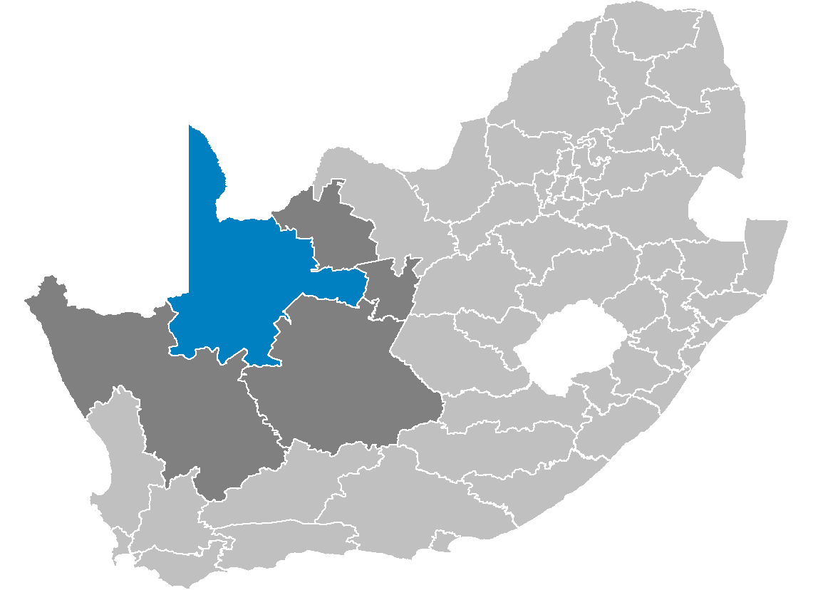 Map showing the Siyanda District Municipality higlighted within Northern Cape.